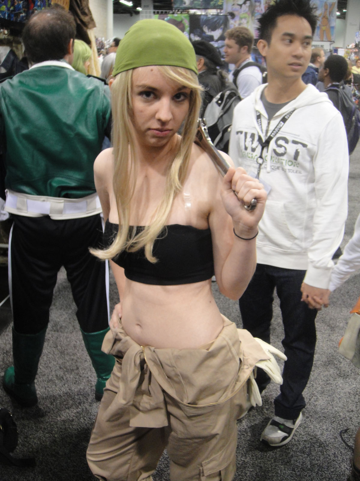 Winry Rockbell (Fullmetal Alchemist) cosplayer at WonderCon 2012